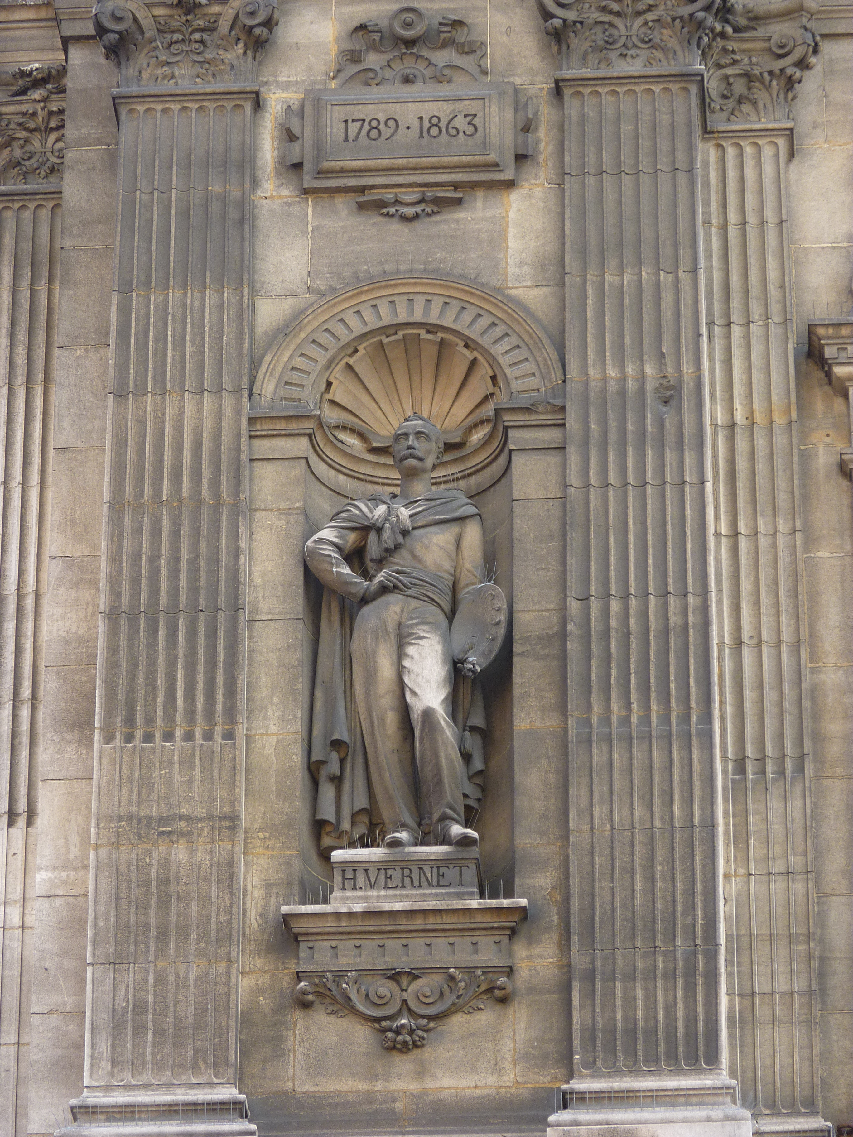 Horace Vernet statue at Paris Town Hall